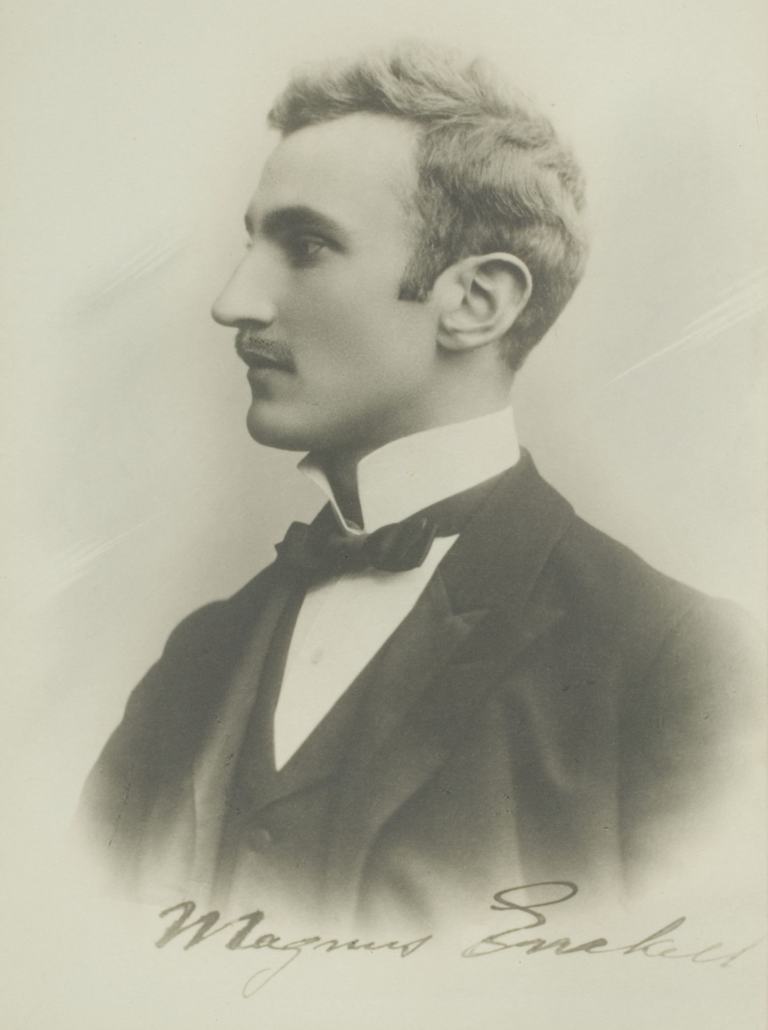 Photograph of the Finnish painter Magnus Enckell (1870-1925).